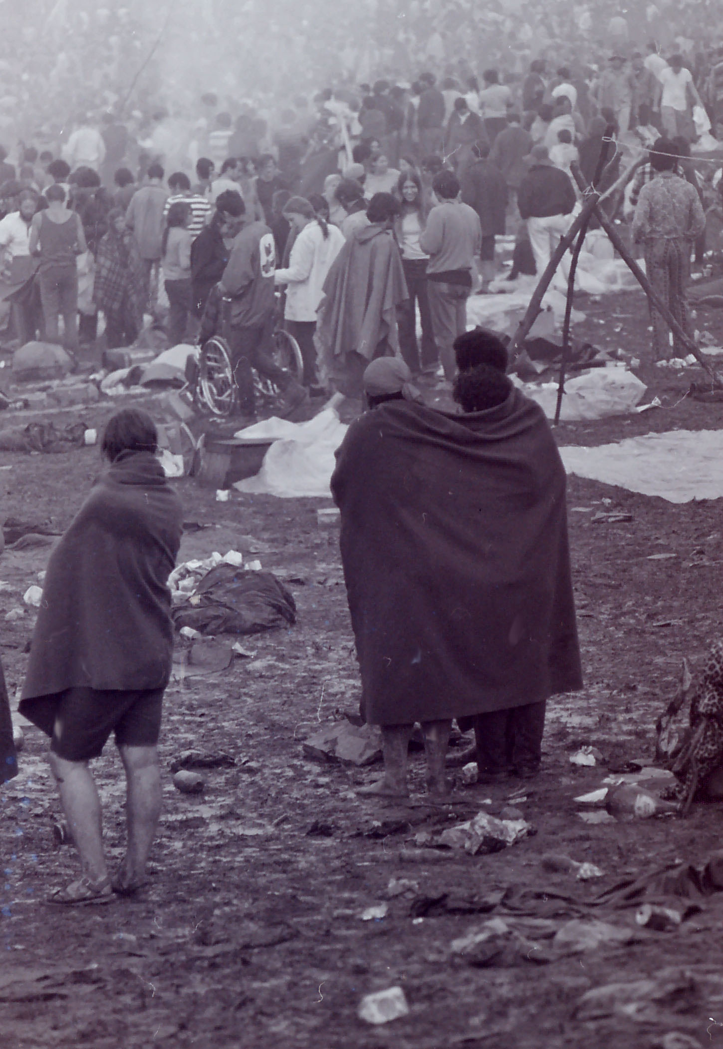 Photo I took at Woodstock